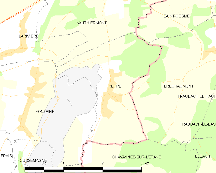 Map of French municipality Reppe